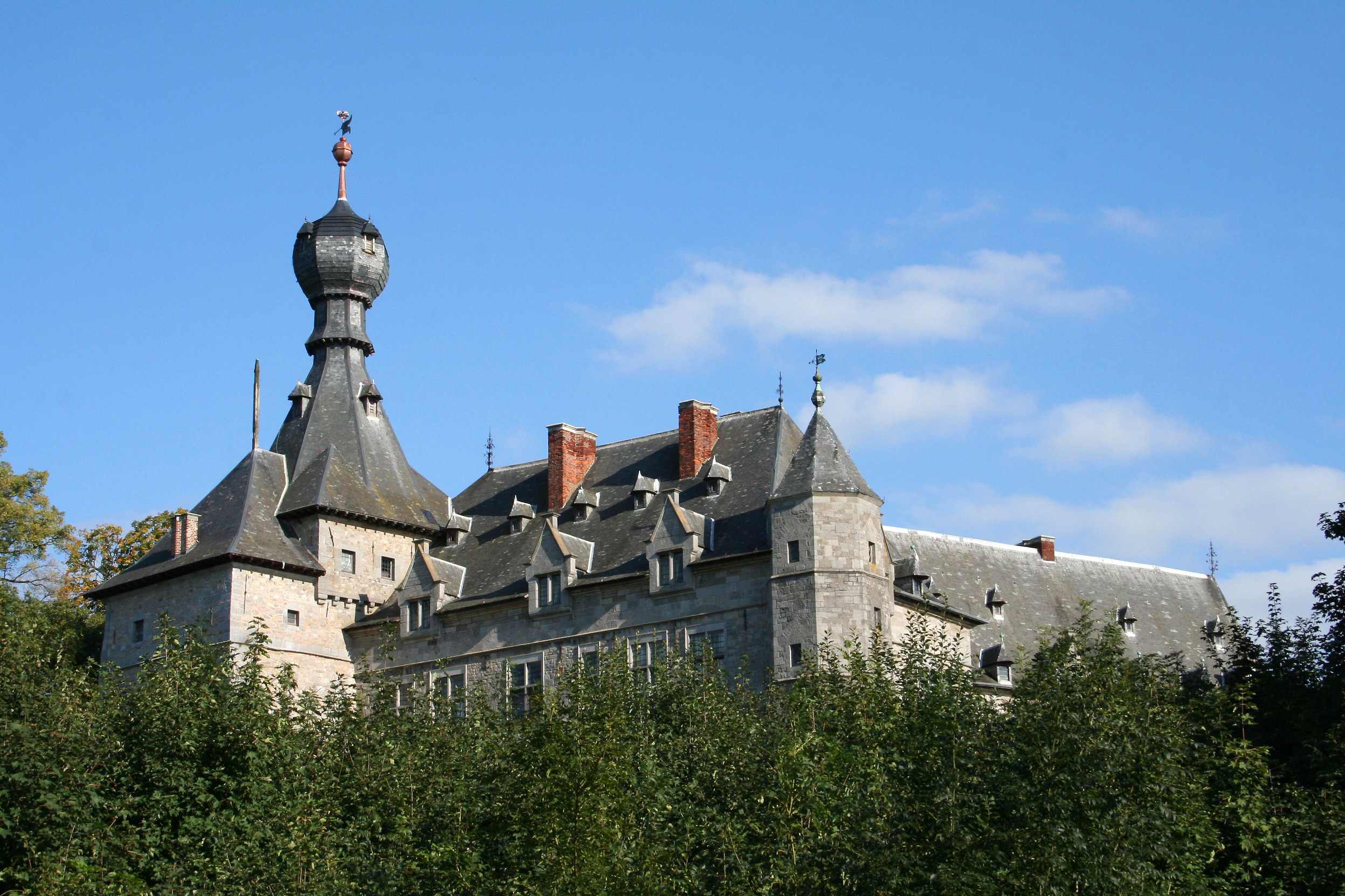 Chimay (Belgium), castle of the princes of Chimay (XIII/XIXth centuries).